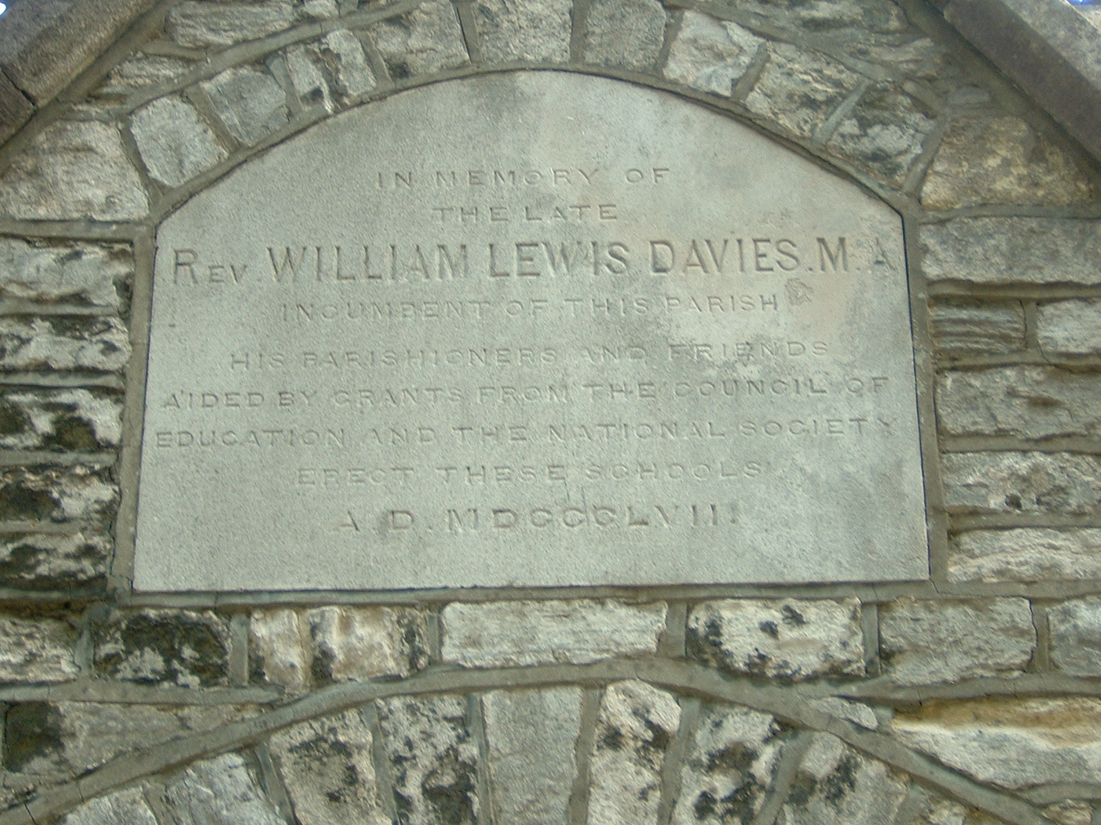 Memorial inscription on old school building at Peartree Green, Southampton